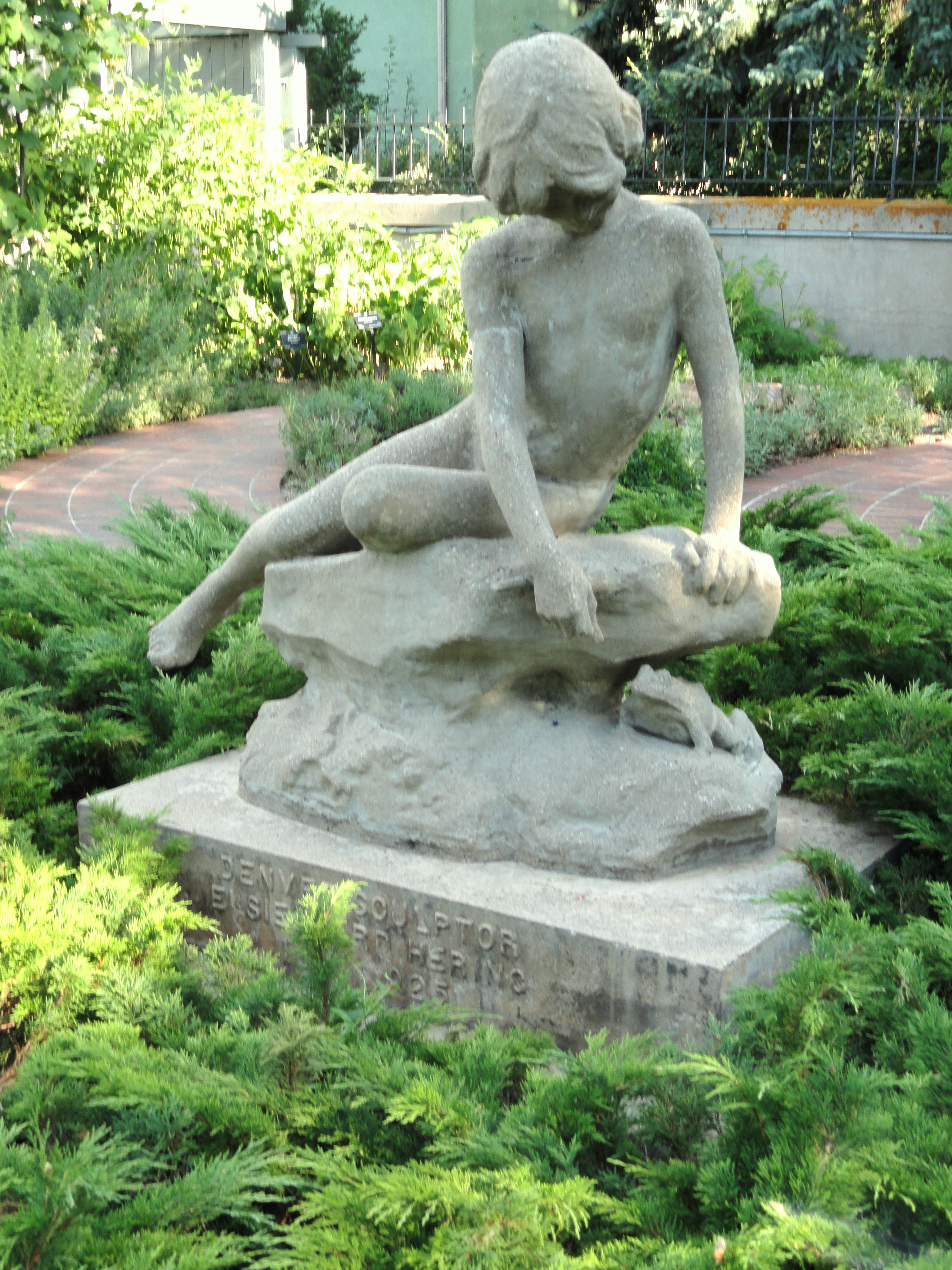 “The Boy and a Frog” by Elsie Ward Hering, Denver Botanic Gardens, 1007 York Street, Denver, Colorado, USA.